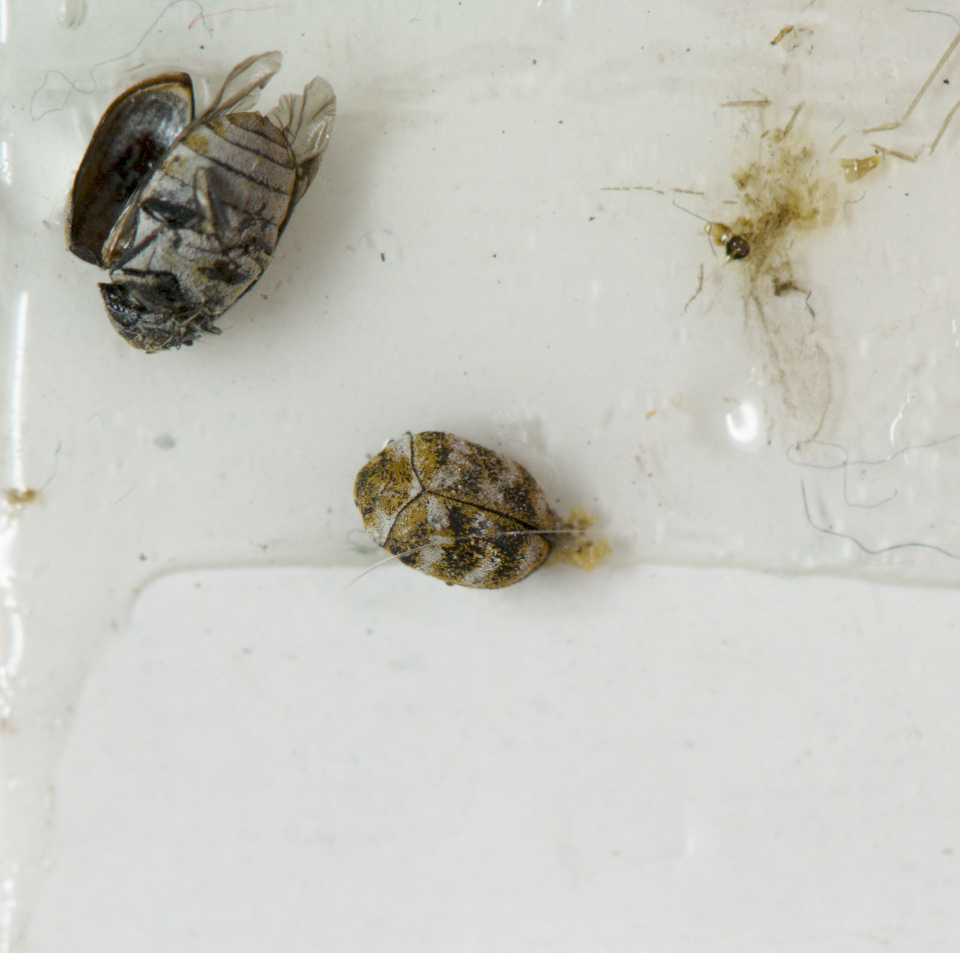 Anthraenus verbasci, Varied carpet beetles, caught on a sticky blunder trap.